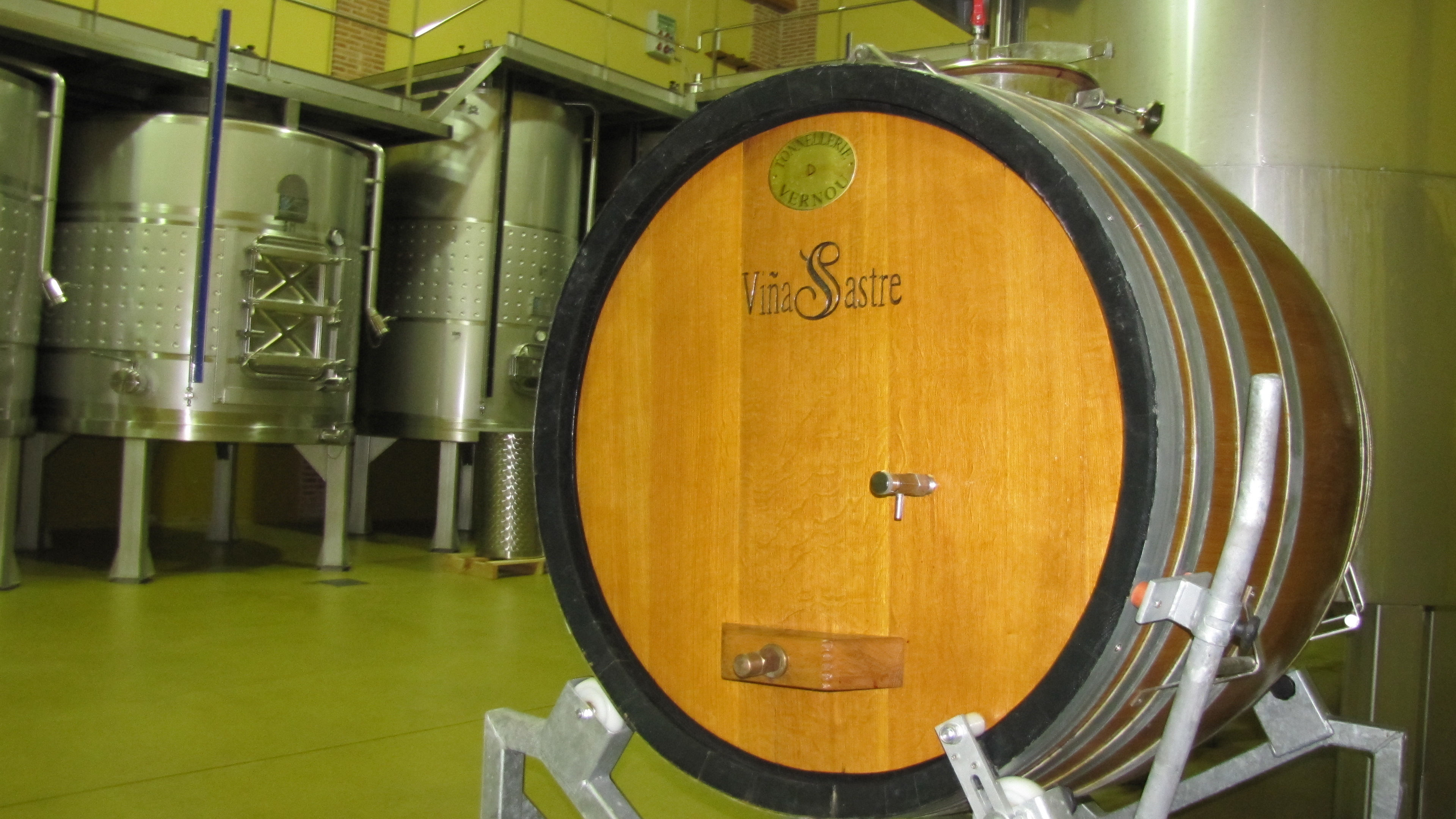 Winarie Viña Sastre - Hermanos Sastre in Ribera del Duero (Spain).